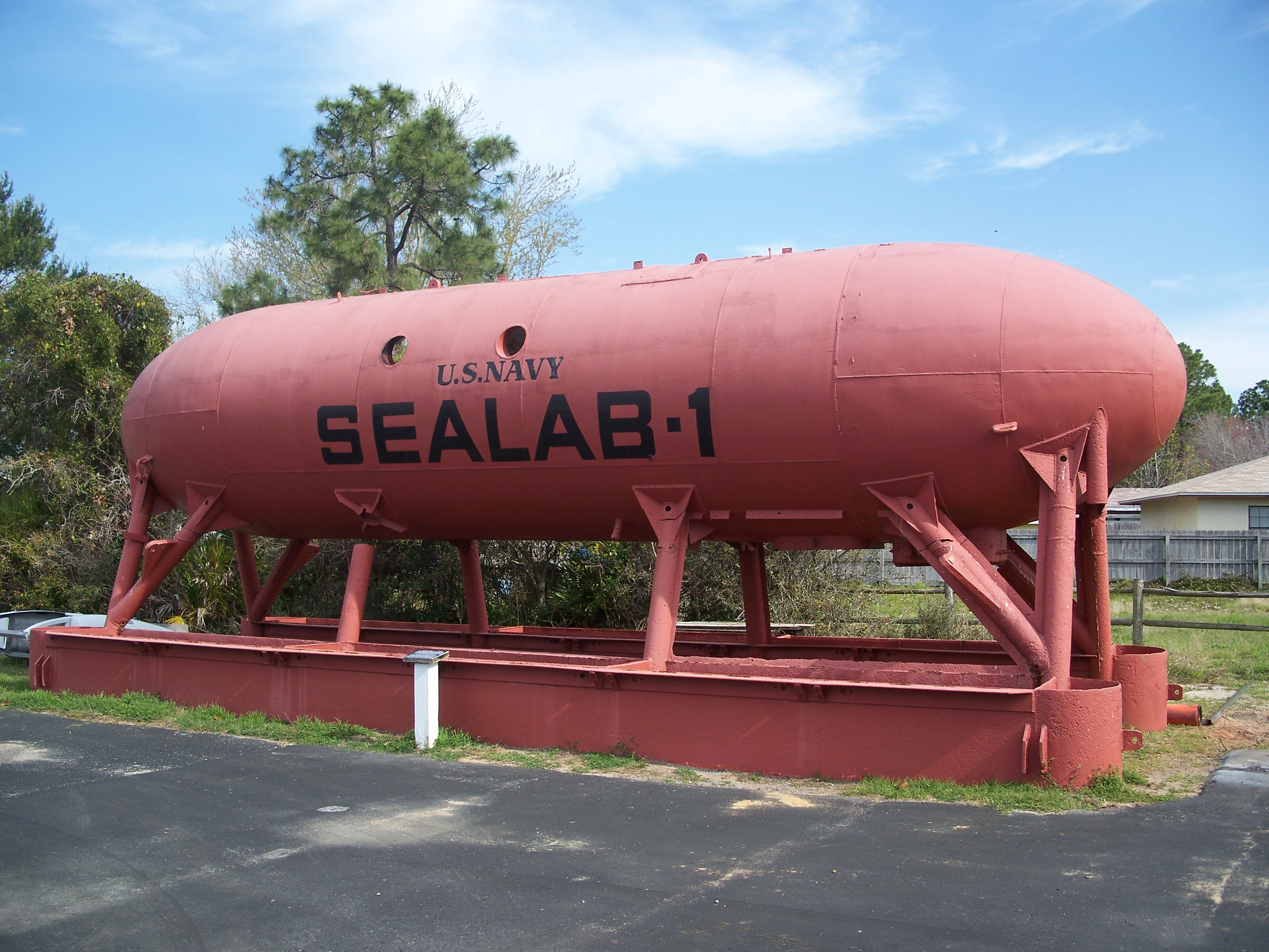 Display at the Museum of Man in the Sea in Panama City Beach, Florida.